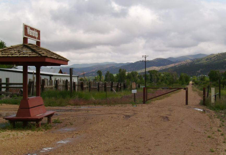 Wanship Station, Union Pacific Rail Trail State Park, Summit County, Utah